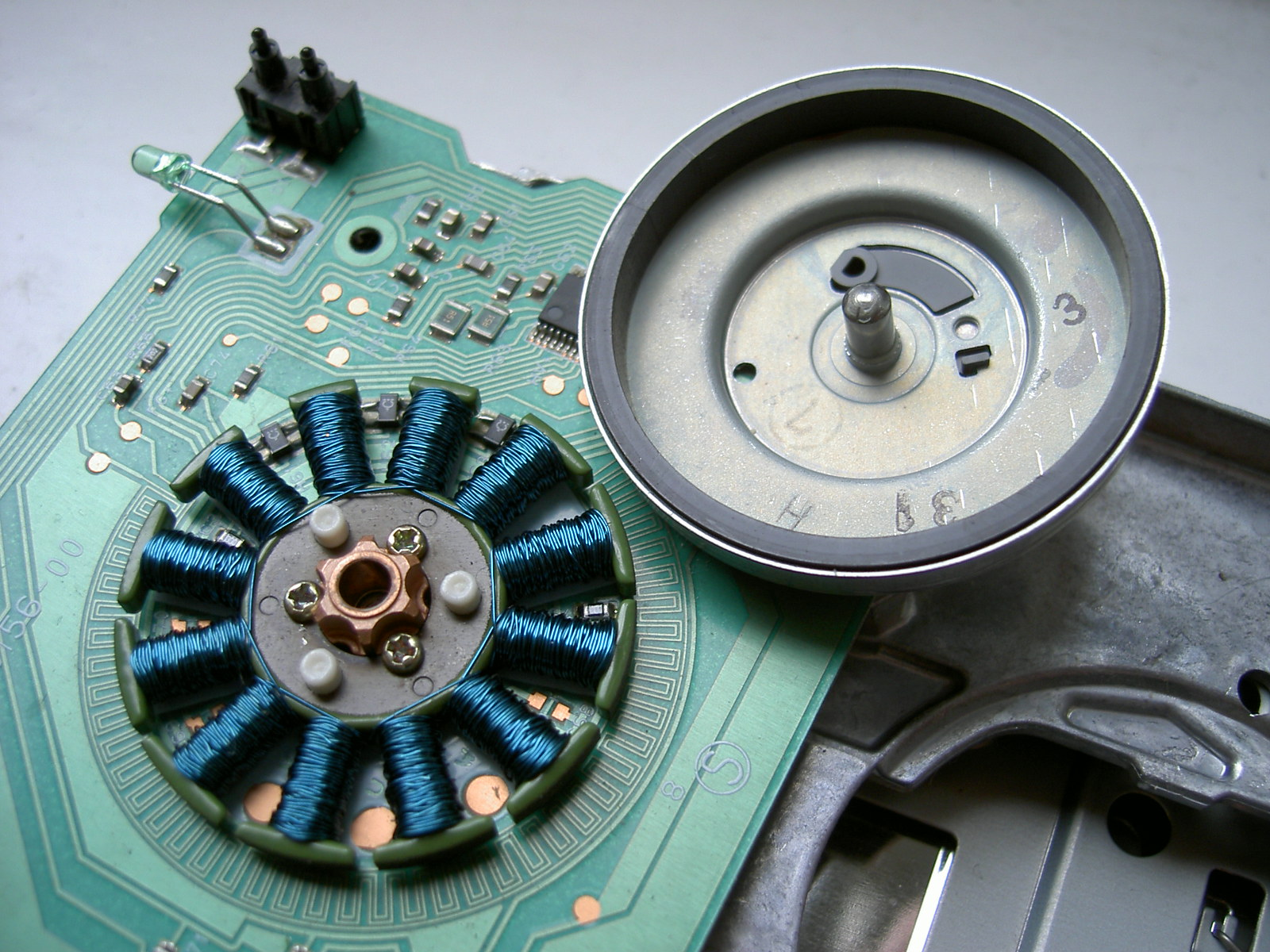 The spindle motor of a 3.5" floppy disk drive (by TEAC Corp.), taken apart. It is a brushless DC outrunner with a 12-pole stator. The stator is affixed to the circuit board, the rotor is lying to the right. The Hall sensors are included on the board, between coils, in the upper left.